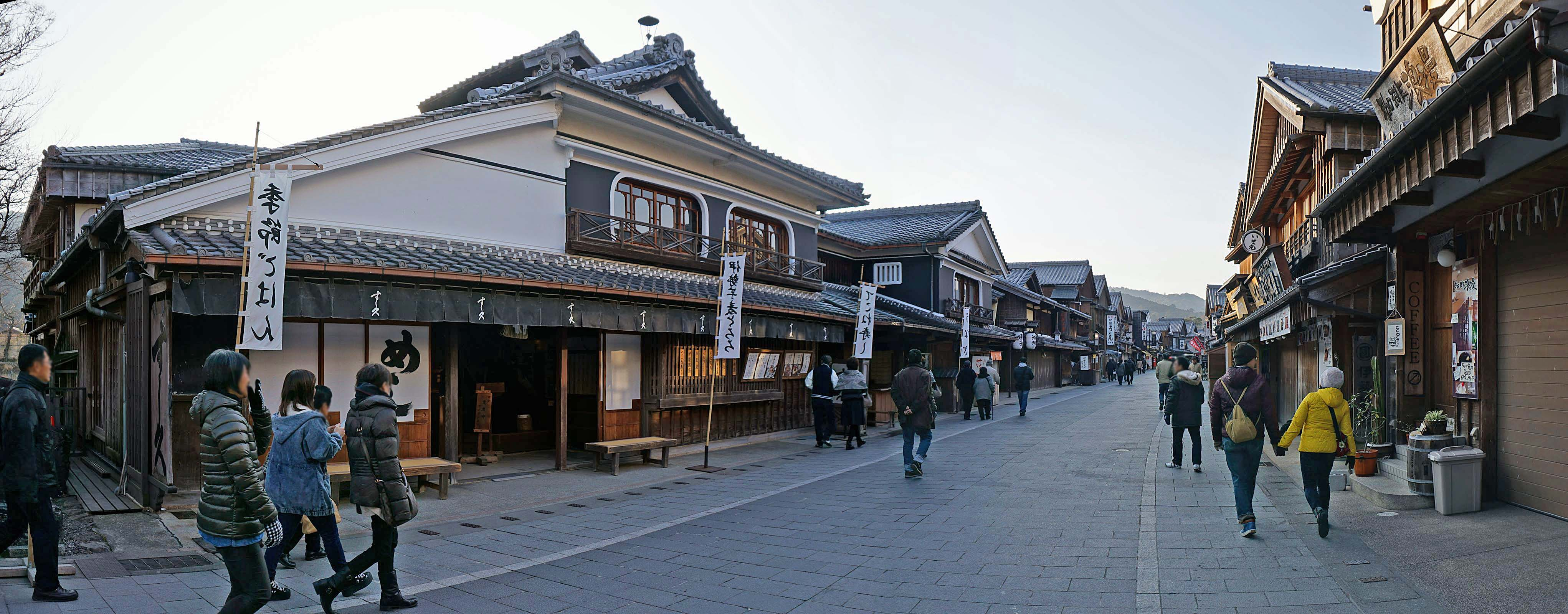 The approch to the Ise grand shrine. , 伊勢神宮 参道